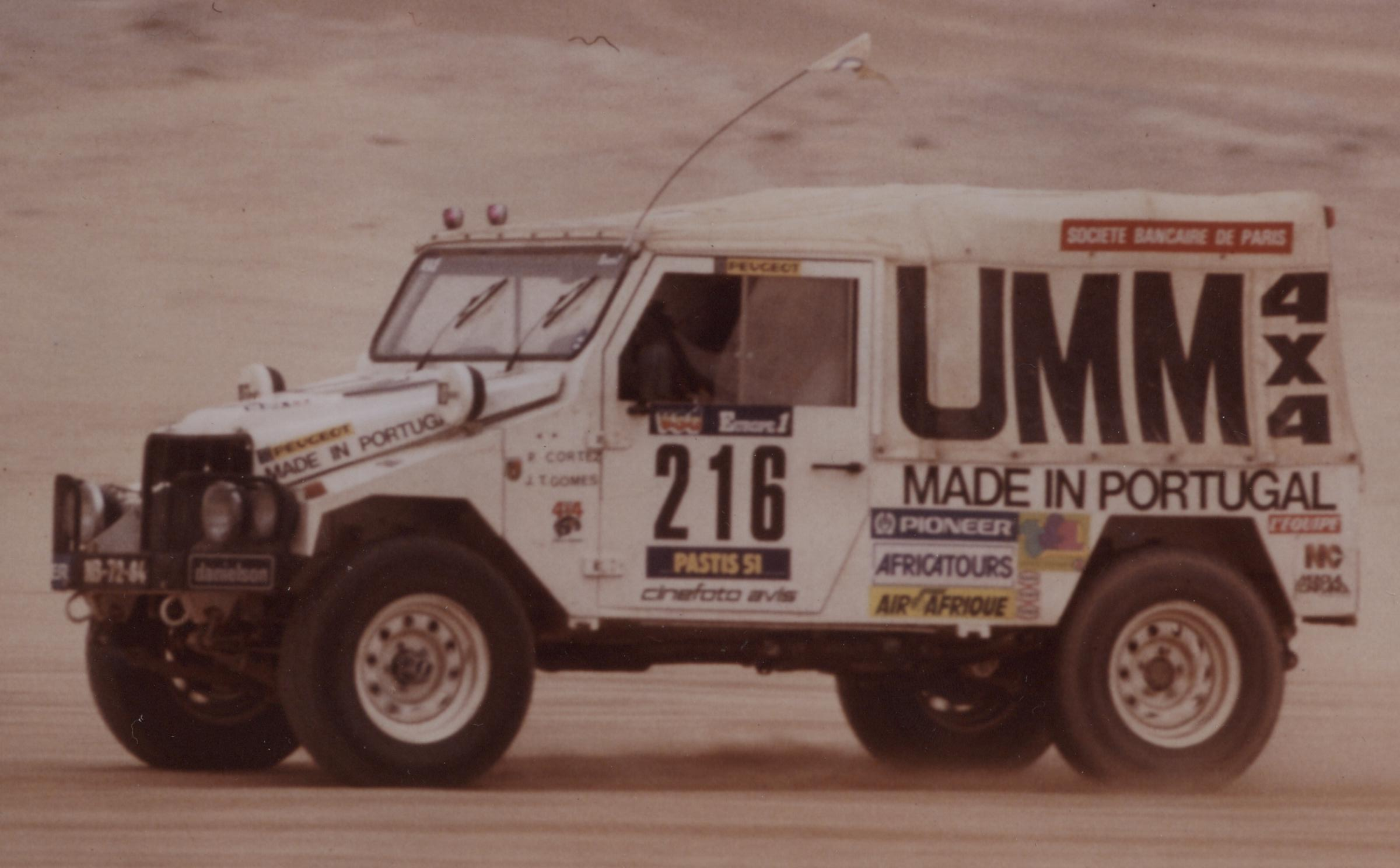 UMM Paris Dakar 1984